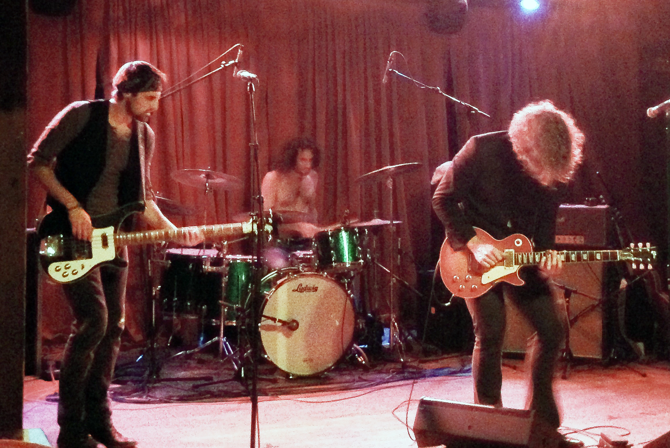 Mercy Lounge, 10 Sept 2014, Nashville TN